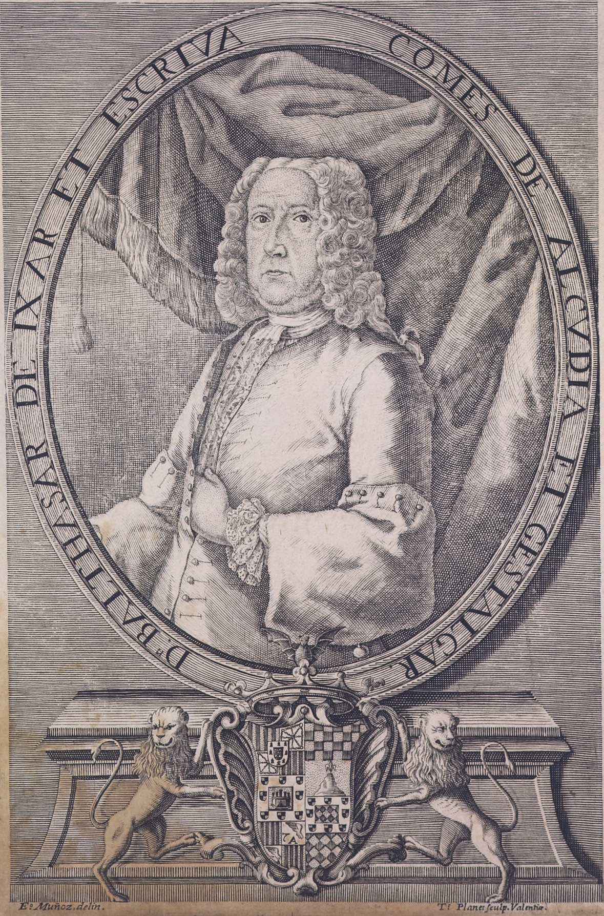 A pencil drawing portrait of Baltasar Escrivà d'Ixer i Montsoriu (1673-1738) who was a Spanish nobleman, viceroy of Balearic Islands